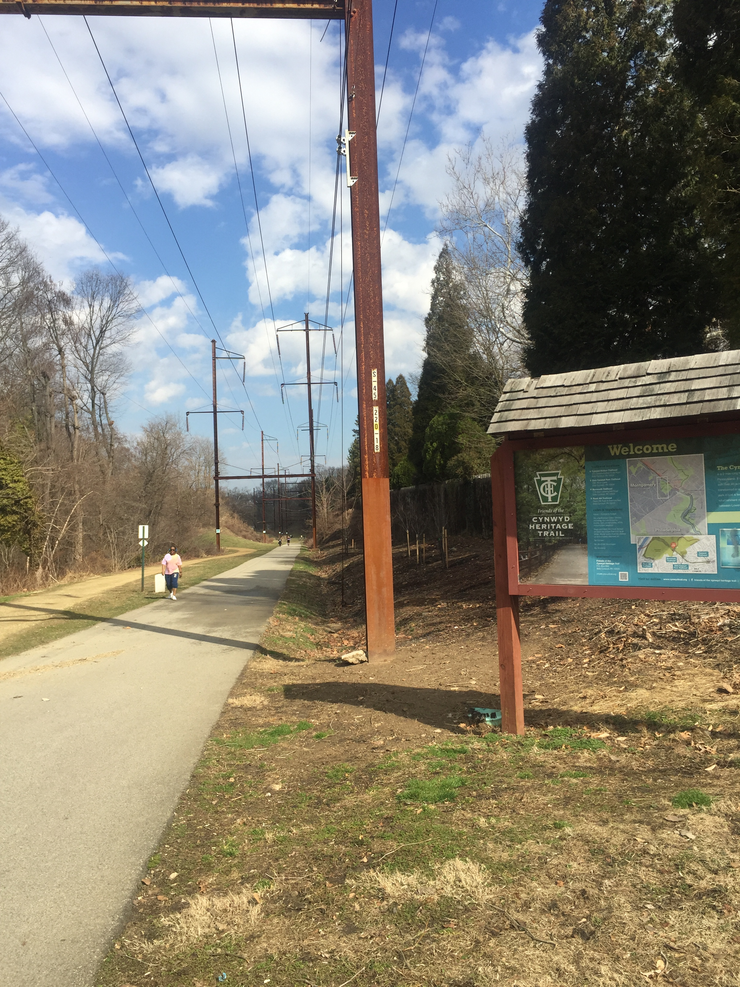 Barmouth trailhead